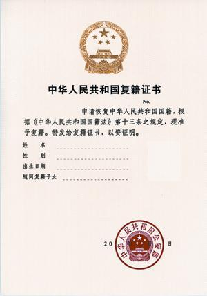 Restoration of nationality certificate of the PRC sample